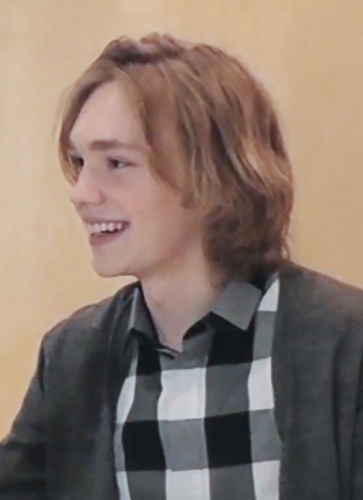 Cropped and brightness adjusted video still of Charlie Plummer speaking to Laura Bünd for Lean on Pete press tour in April 2018